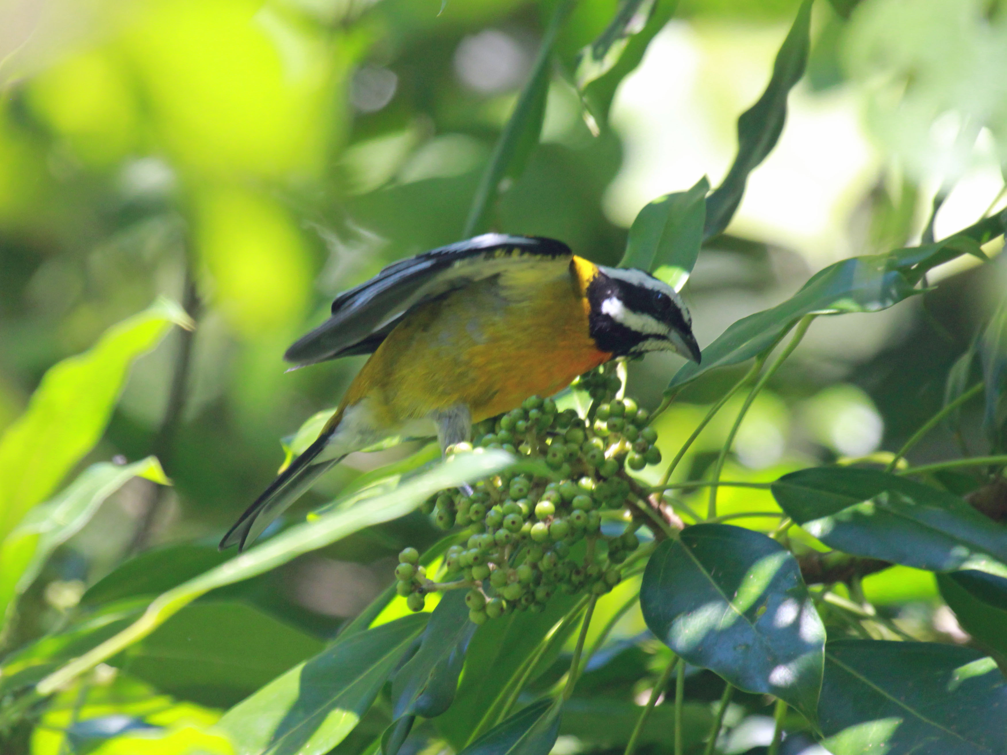 Male Jamaican Spindalis (Spindalis nigricephala) - Blue Mountains, Jamaica